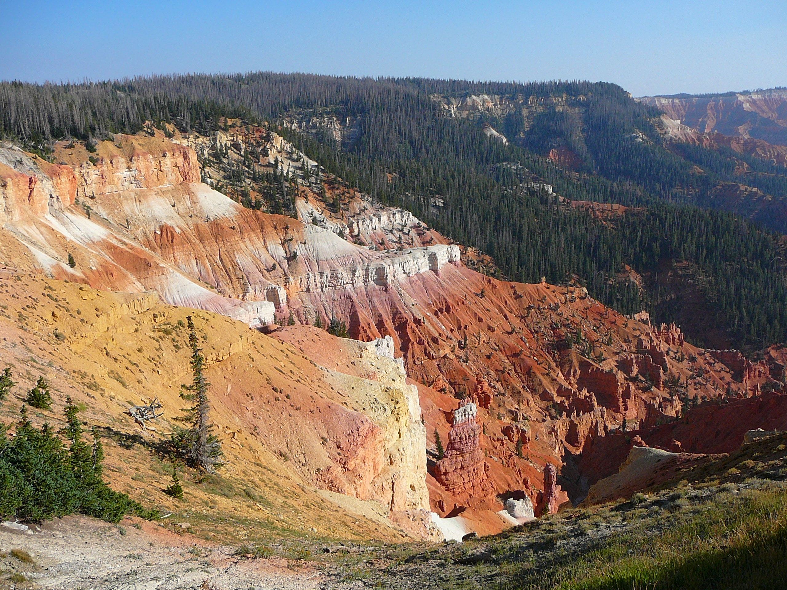 Digital photo taken by Marc Averette. Cedar Breaks National Monument during late afternoon.